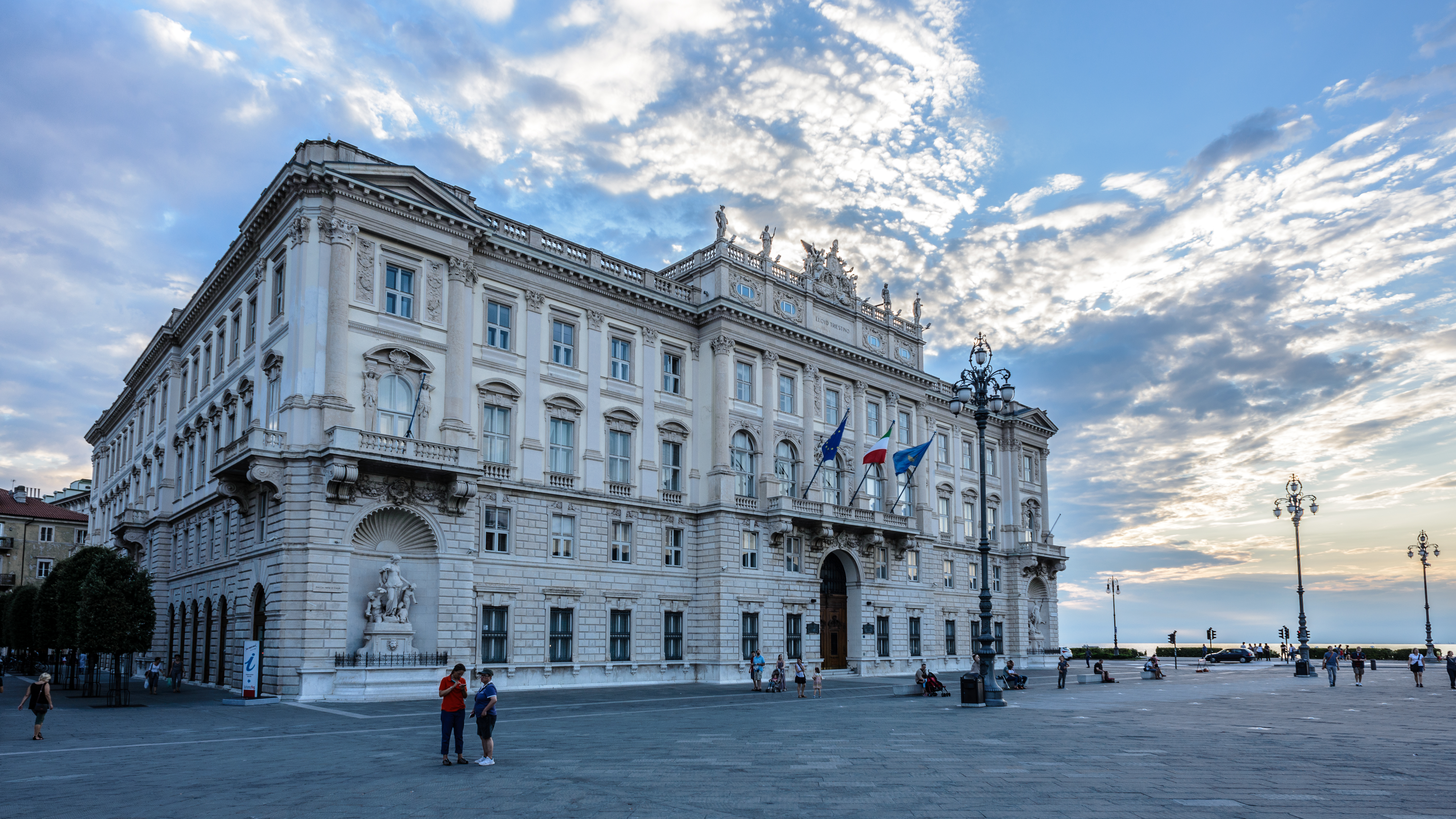 Lloyd Triestino builing in Trieste, Italy